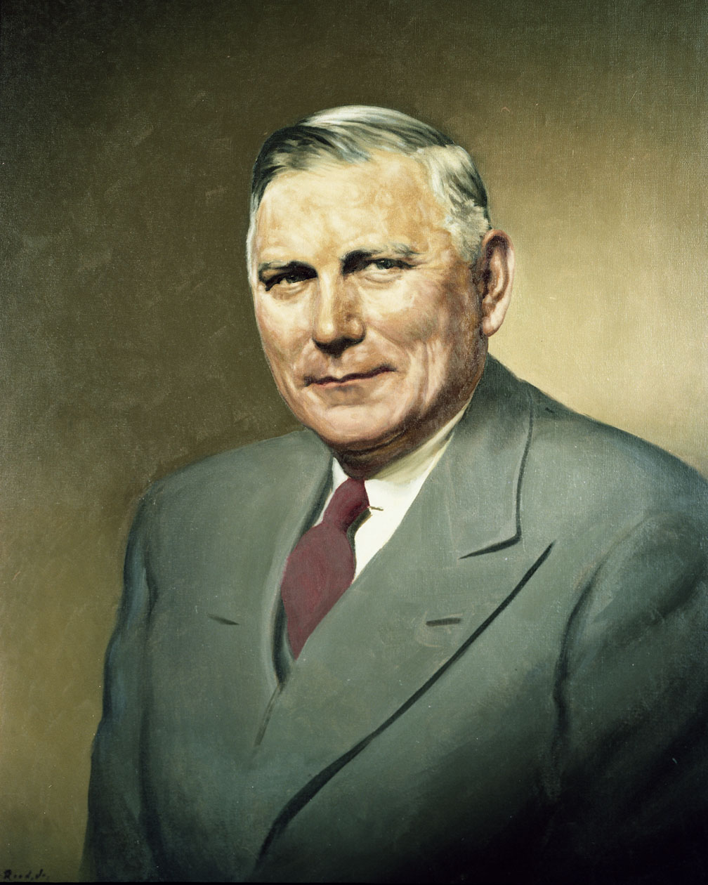 Robert Gregg Cherry, 1945 - 1949 From the General Negative Collection, State Archives of North Carolina, Raleigh, NC.